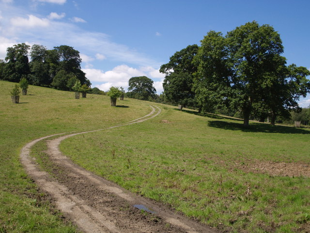 Parkland, Dunsland The carriage drive winds up across the park after crossing a stream between ponds. Curuously, this land is not shown as National Trust property on the 1:25000 map.